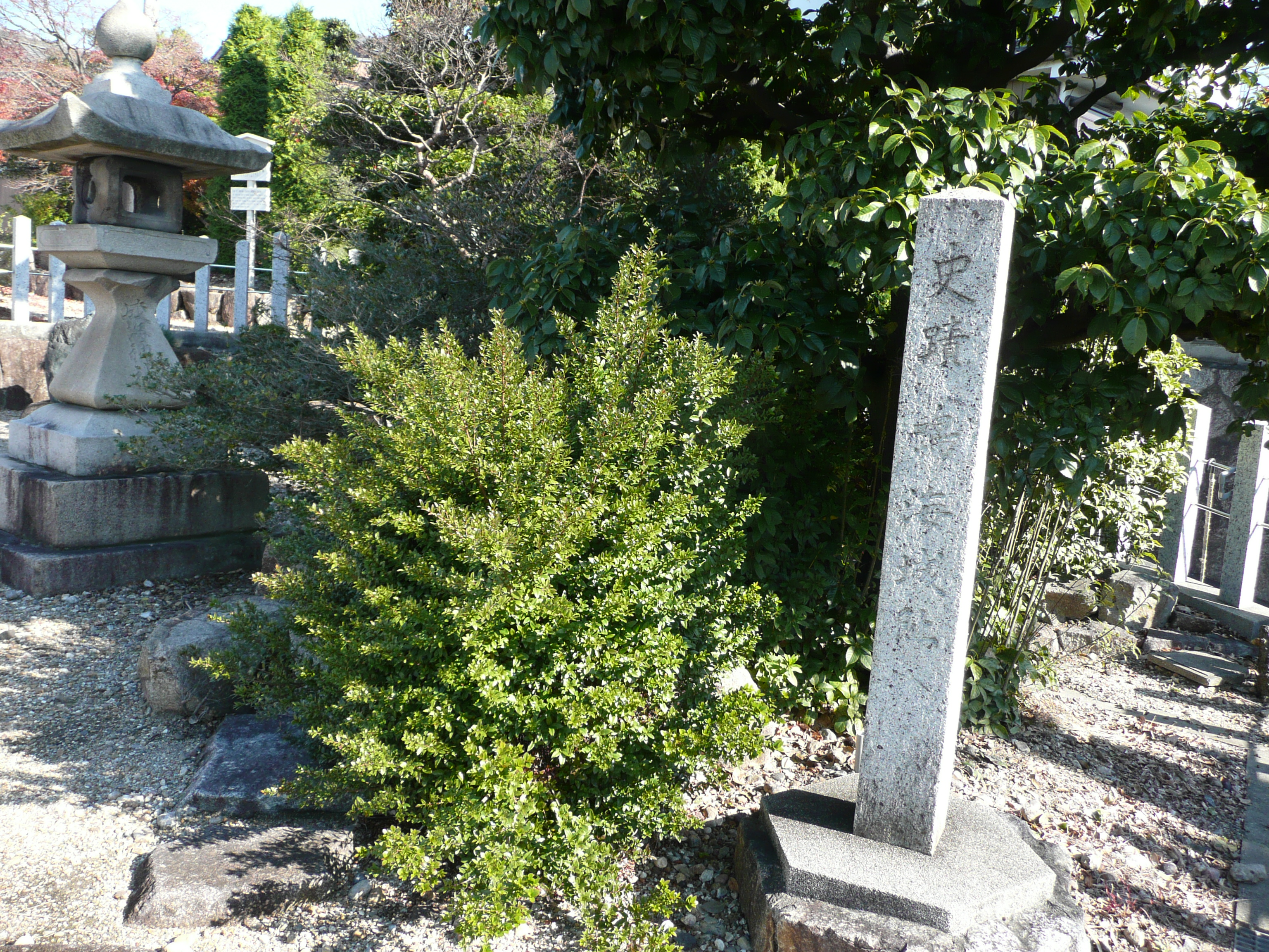 鳴海城の石碑